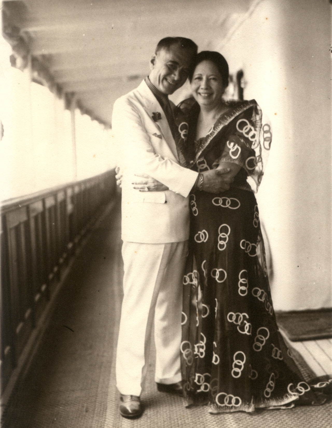 Aurora Aragon Quezon and Manuel L. Quezon (married 1918) pose for a couples photo.